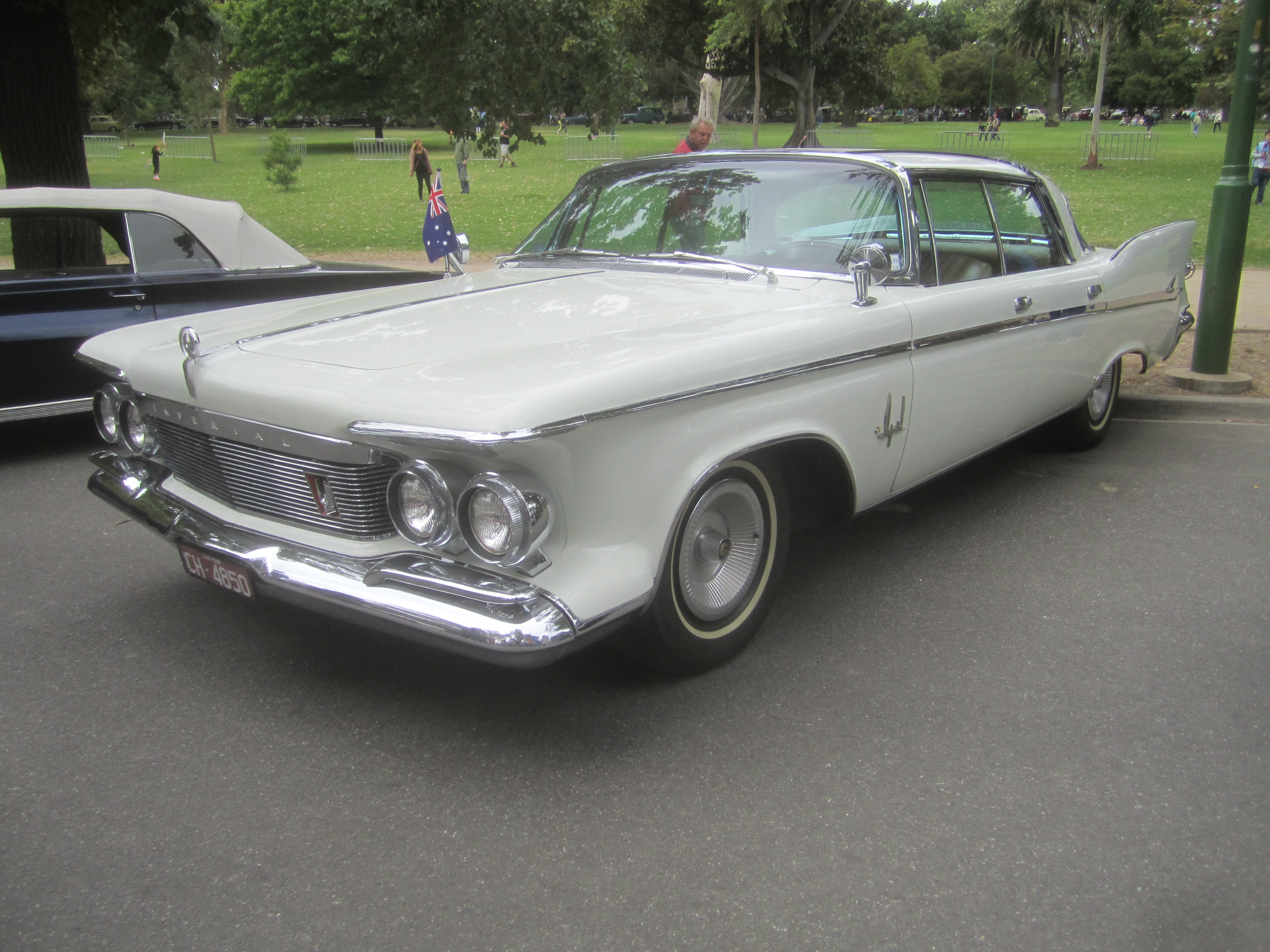 Alaskan White. Chrysler had used the Imperial name since 1926, as the top of the line model. In 1955, the Imperial became a separate marque, apart form the Chrysler brand. The 1st generation, 55-56, had a similar look to the 300C. From 1957-63, they had a controversial look, designed by Virgil Exner, they were wider, with unique front end styling. Despite annual styling changes, all 1960-63 models featured a similar space age dashboard with electroluminescent lighting. The steering wheel was squared-off at top and bottom. Models were; Imperial Crown, Custom and LeBaron. Available in 2 and 4 door Hardtop, 2 door convertible and 4 door sedan. The 1961 model year brought a wholly new front end with free-standing headlights on short stalks in cut-away front fenders and the largest tailfins ever. Engines; 392, 413 or 440 cu in V8s